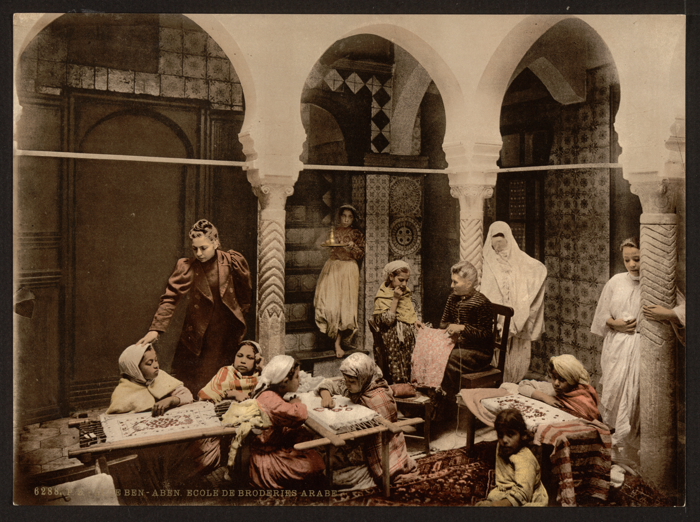 "This photochrome print of the interior of a school of embroidery in Algiers is part of “Views of People and Sites in Algeria” from the catalog of the Detroit Publishing Company (1905). In 1845 the Frenchwoman Eugénie Luce (1804–82) opened a school for Muslim girls in Algiers that was intended to educate local girls along European lines. She included teaching needlework in the curriculum, along with French and other subjects. In 1861 the French Algerian administration withdrew funding from the school. The emphasis of the school shifted from general education to embroidery and training for a trade. Traditional female crafts in Algeria, such as weaving, embroidery, and carpet making, had suffered from the competition with machine-made imports, and the Luce Ben Aben School sought to work against the effects of this trend. By 1880, Madame Luce’s granddaughter, Madame Ben-Aben, was running the school."